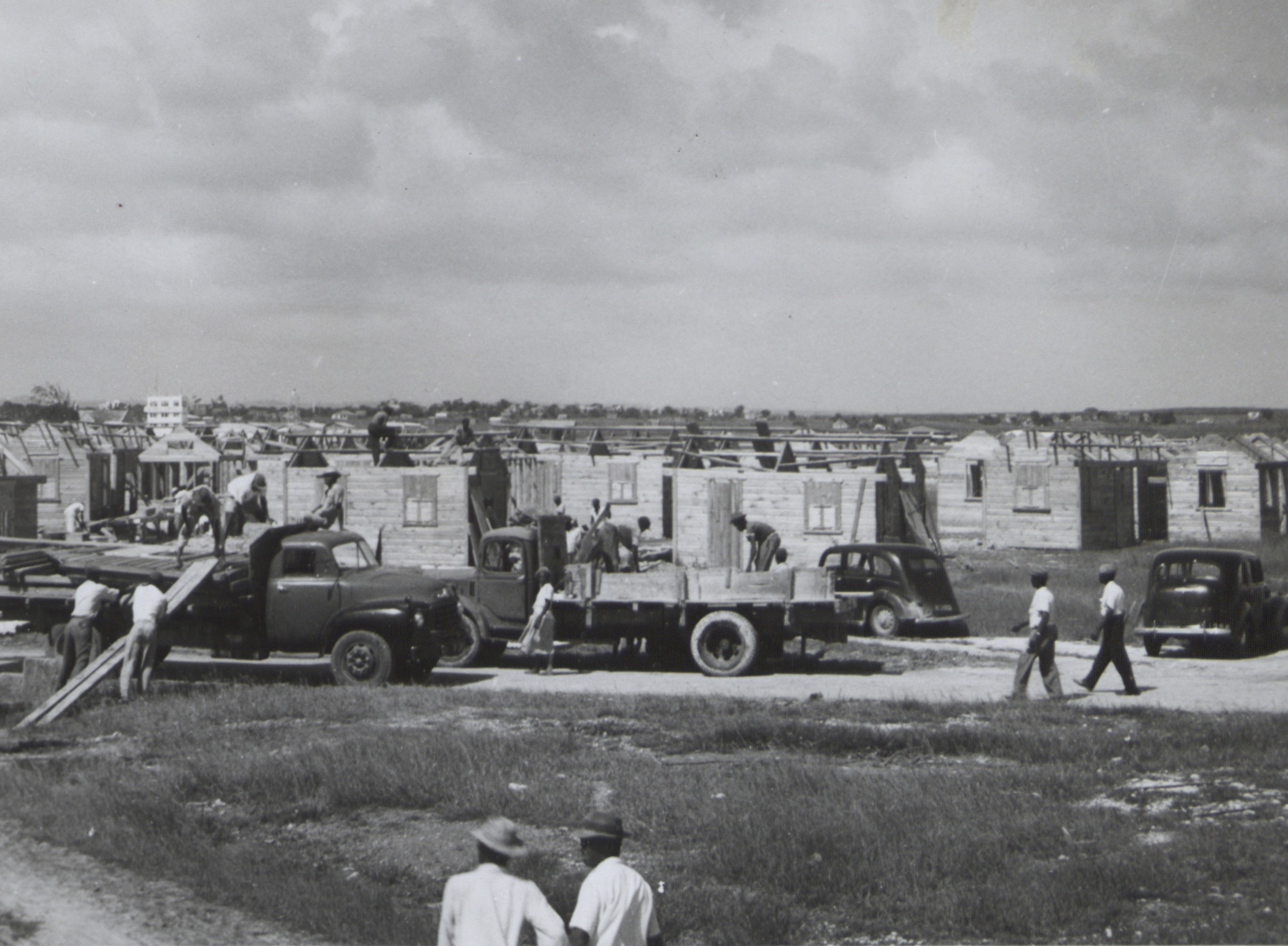 Workers rebuilding houses as part of a massive island-wide project to construct sustainable homes after many were completely destroyed after Hurricane Janet in 1955.